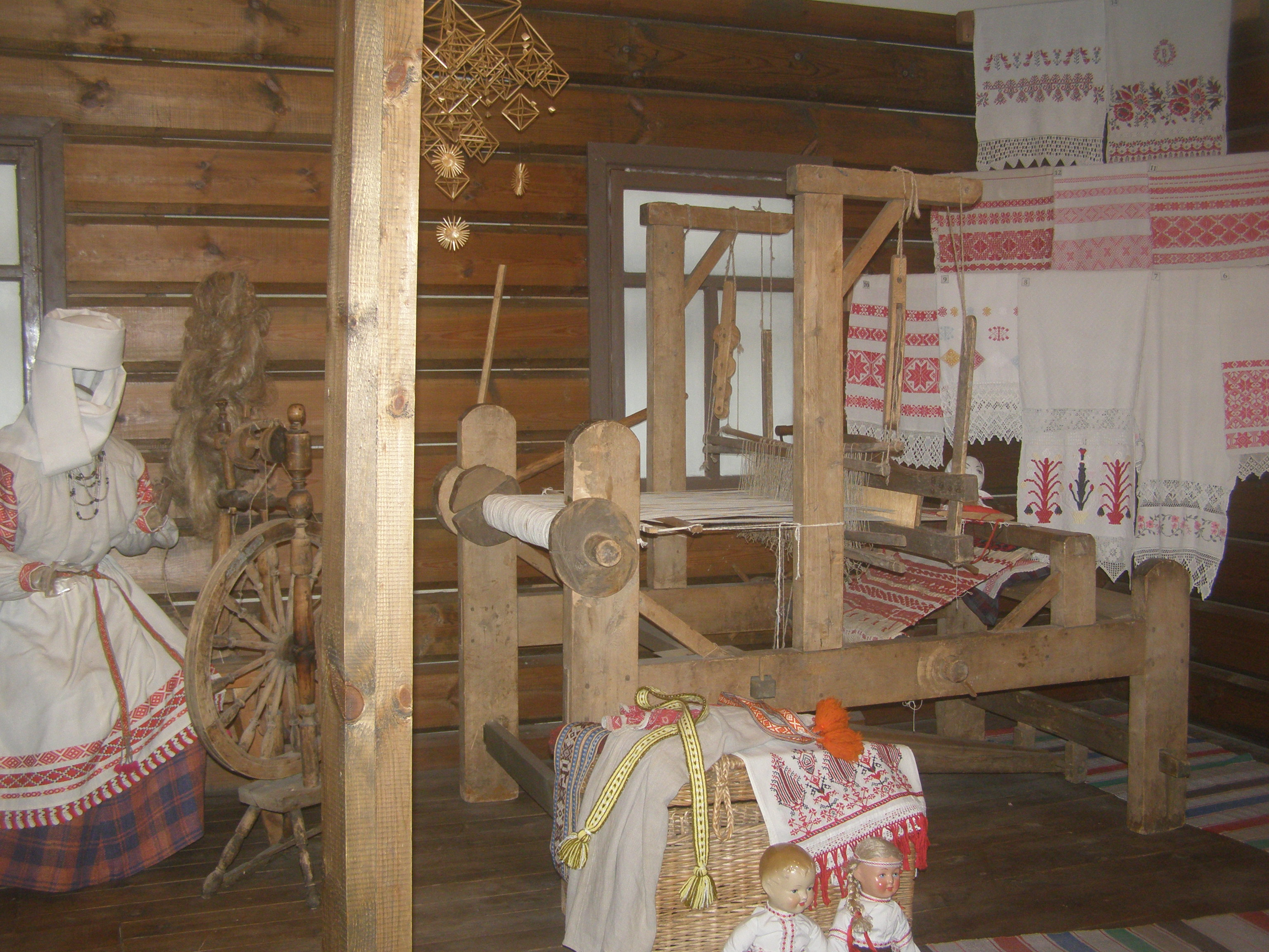 Looms in Belarus - the exposition of History Museum of Polack city (Belarus). Photo 2011 AD